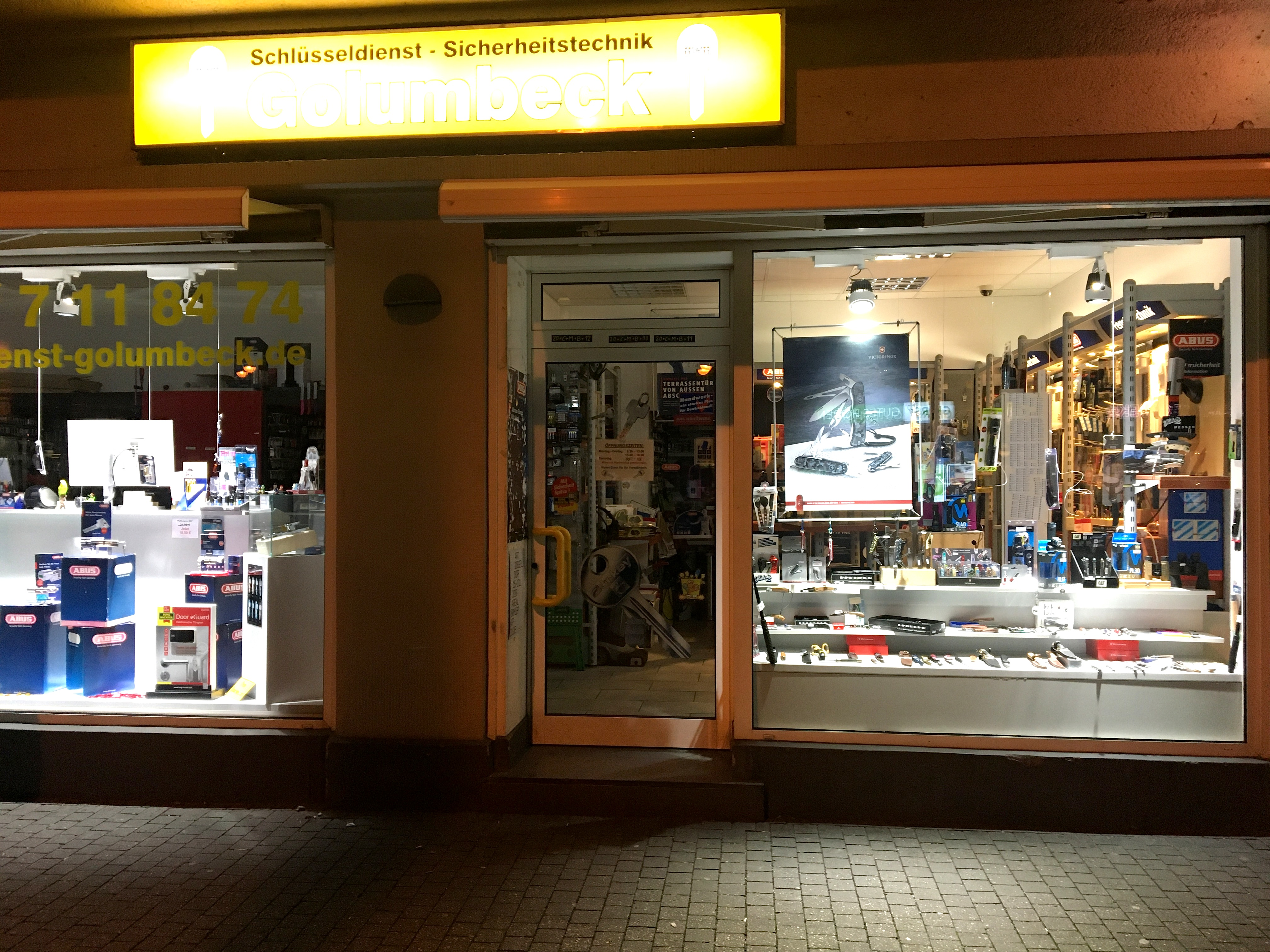 Street "Heubesstrasse" 5 (Dusseldorf-Benrath).